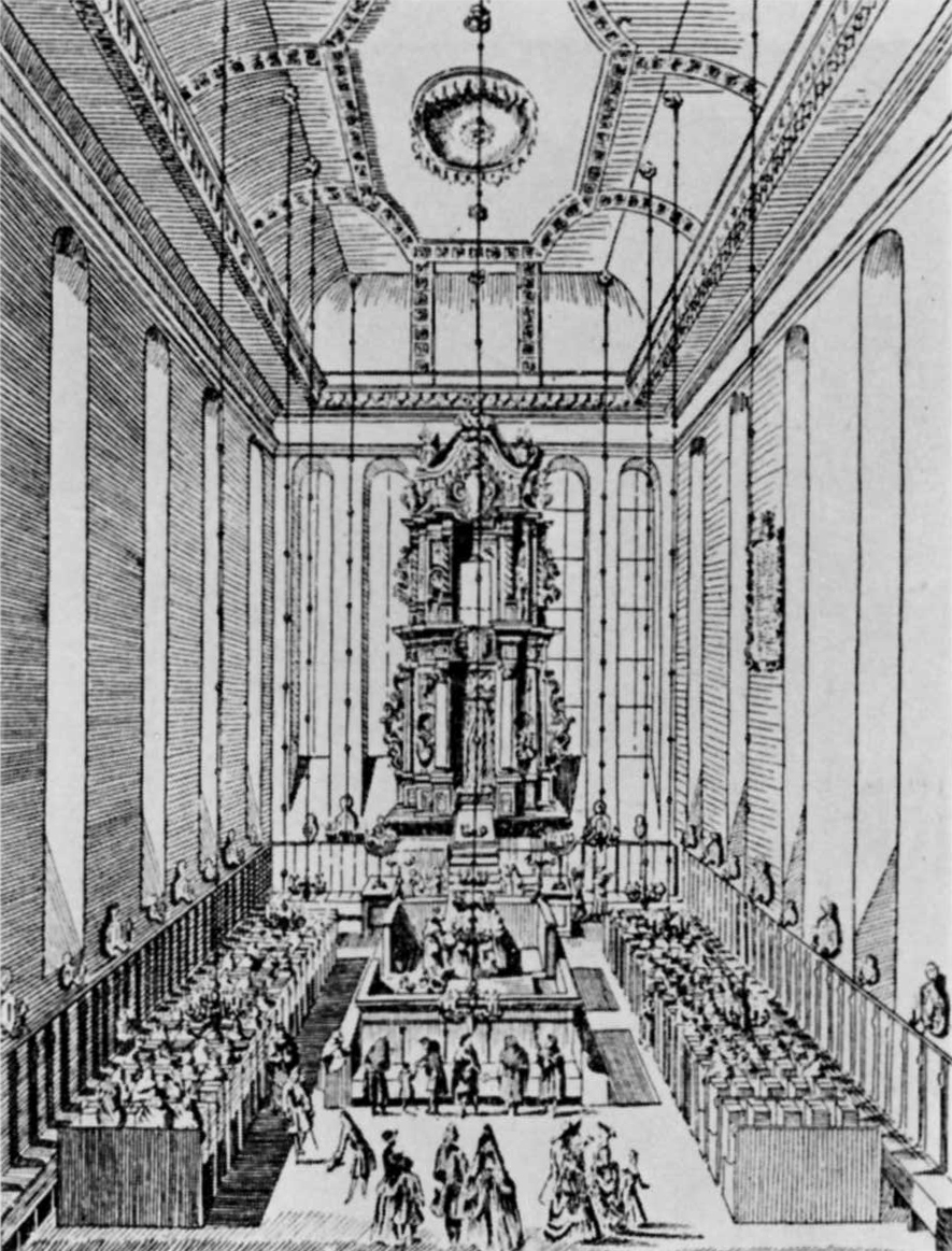 Interior of the Berlin's Old Synagogue, located at Heidereutergasse, looking east.